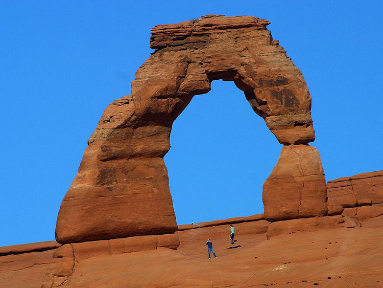 Delicate Arch in Arches National Park, Utah, USA.